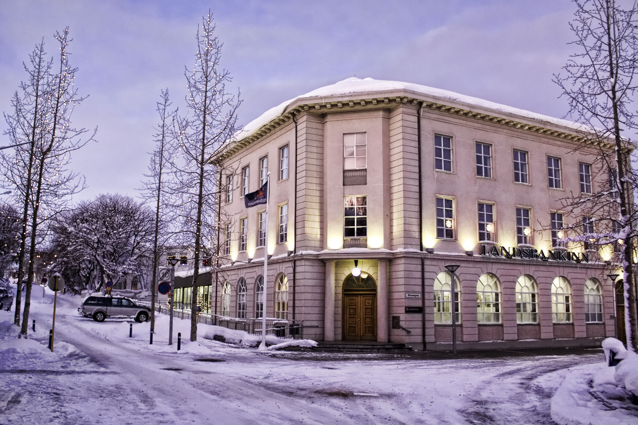 Office of the Landsbanki bank in Akureyri, Iceland.